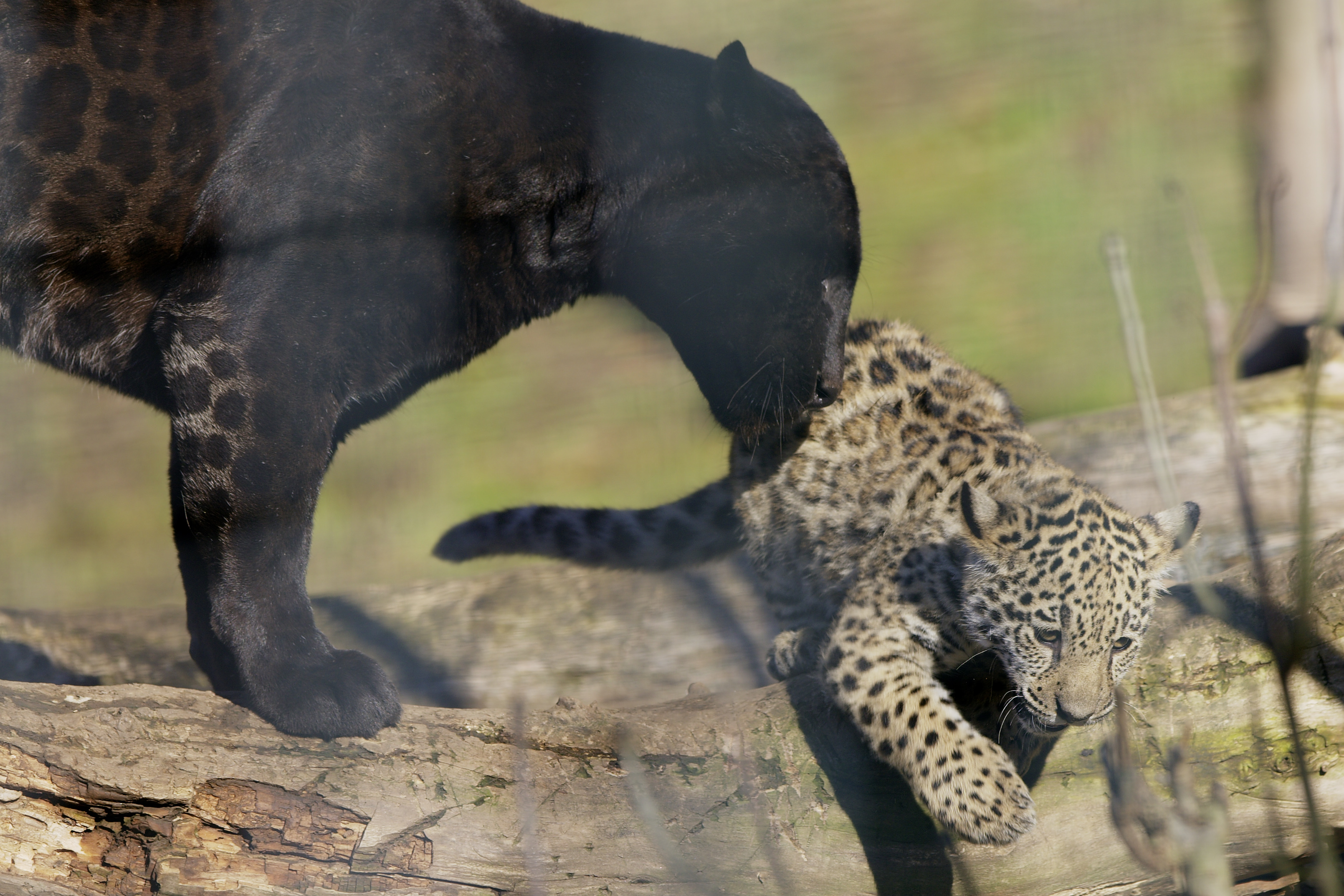 Young (4 months) jaguars at zoo Salzburg. Born at 2009-08-31 photographed at 2009-12-26